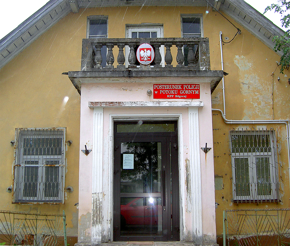 Potok Górny, Poland - Police Station